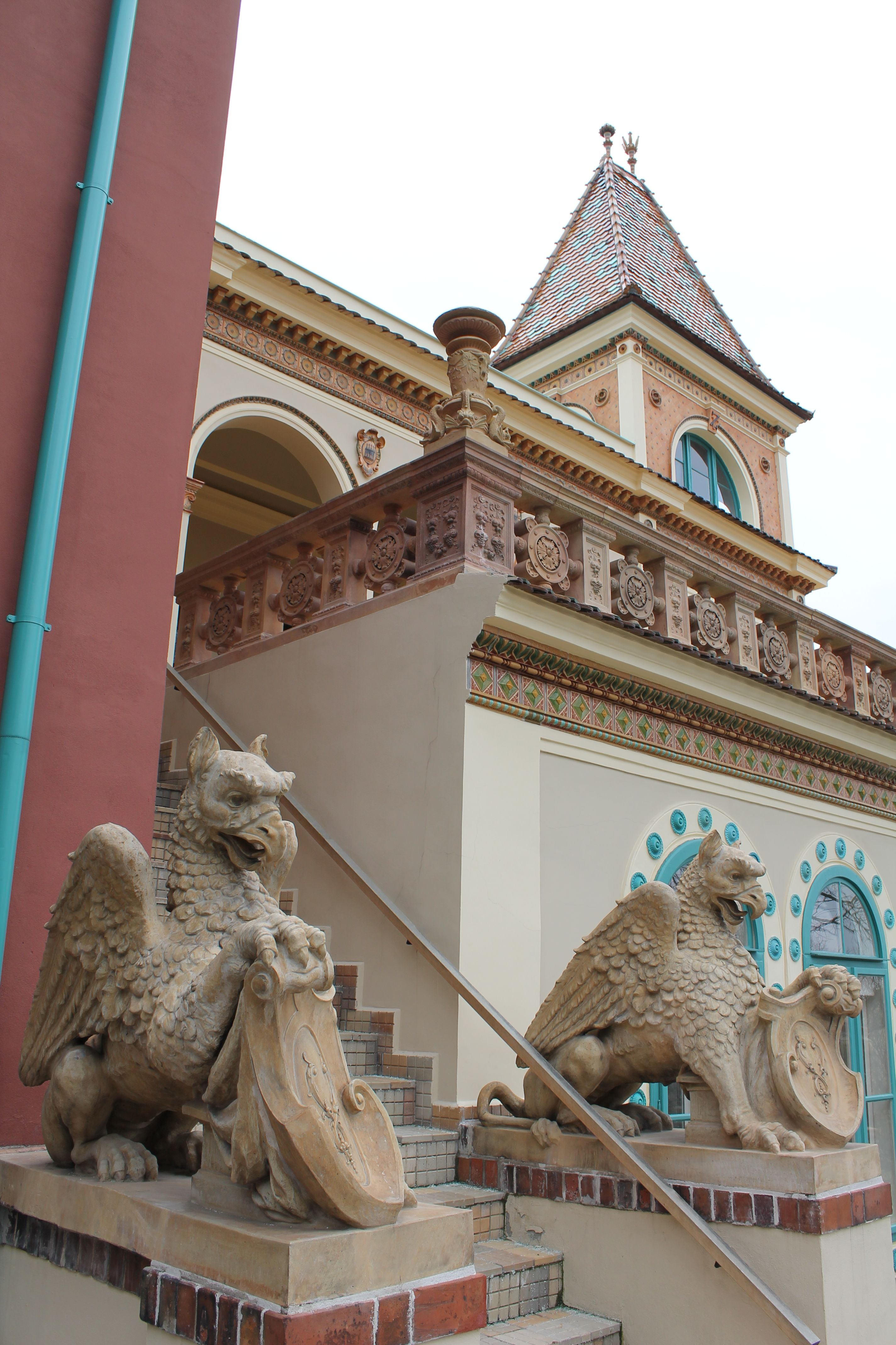 Part of the former family estate in the Zsolnay factory, today Zsolnay Cultural Quarter, Pécs, Hungary